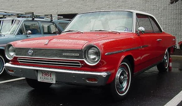 1964 Rambler American 440-H (this was the top of the line model) two-door hardtop (no B-pillar) compact car by American Motors Corporation (AMC) Front left side view. Picture taken at the AMCRC car show that was held in Somerset, New Jersey held in Somerset, New Jersey, during August 8 and 9, 2003.